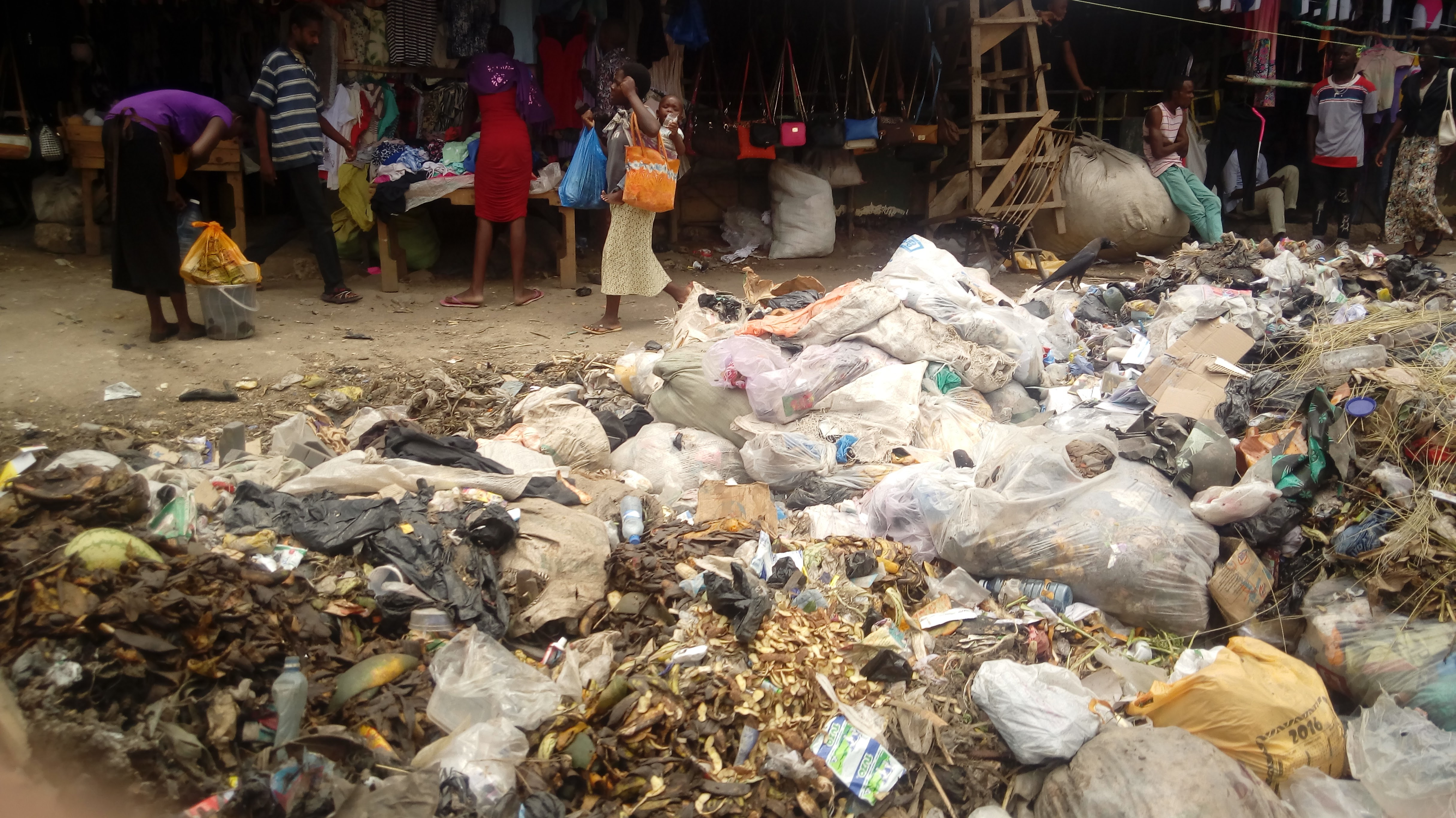 This is an image with the theme "Play" from: Kenya